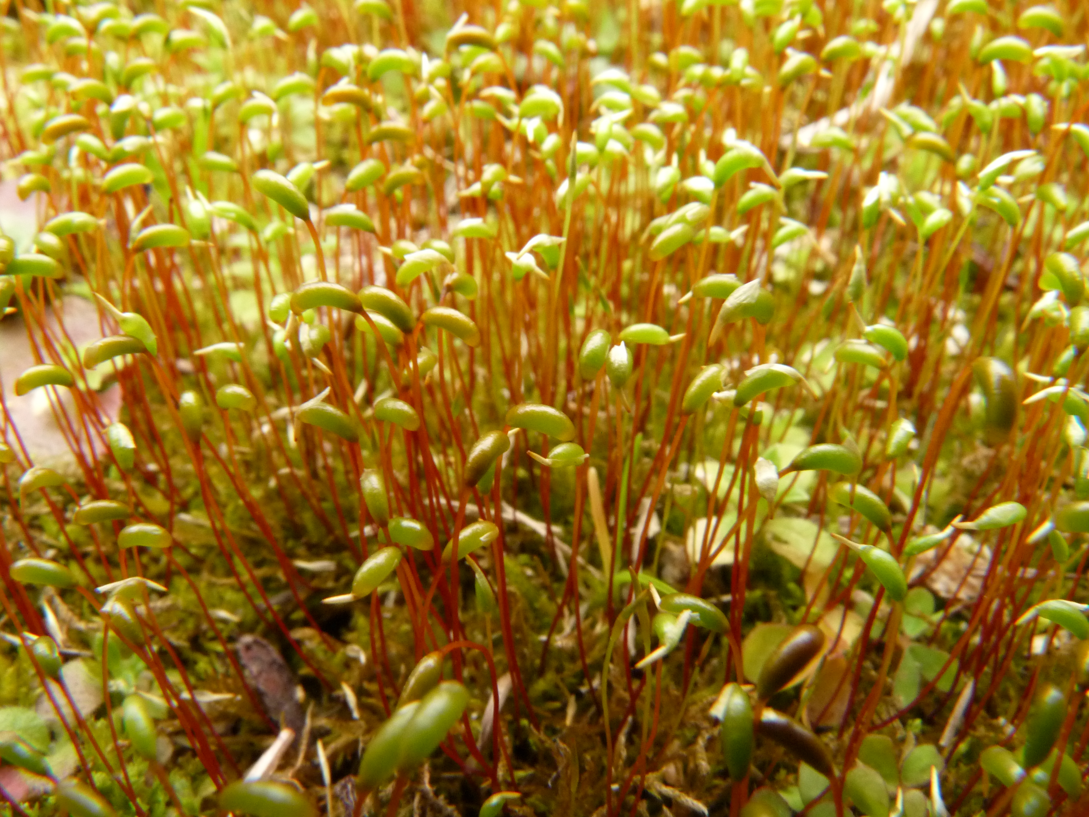 Bryohaplocladium (Haplocladium) angustifolium, Thuidiaceae